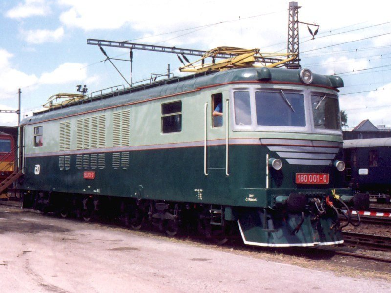 180 001b